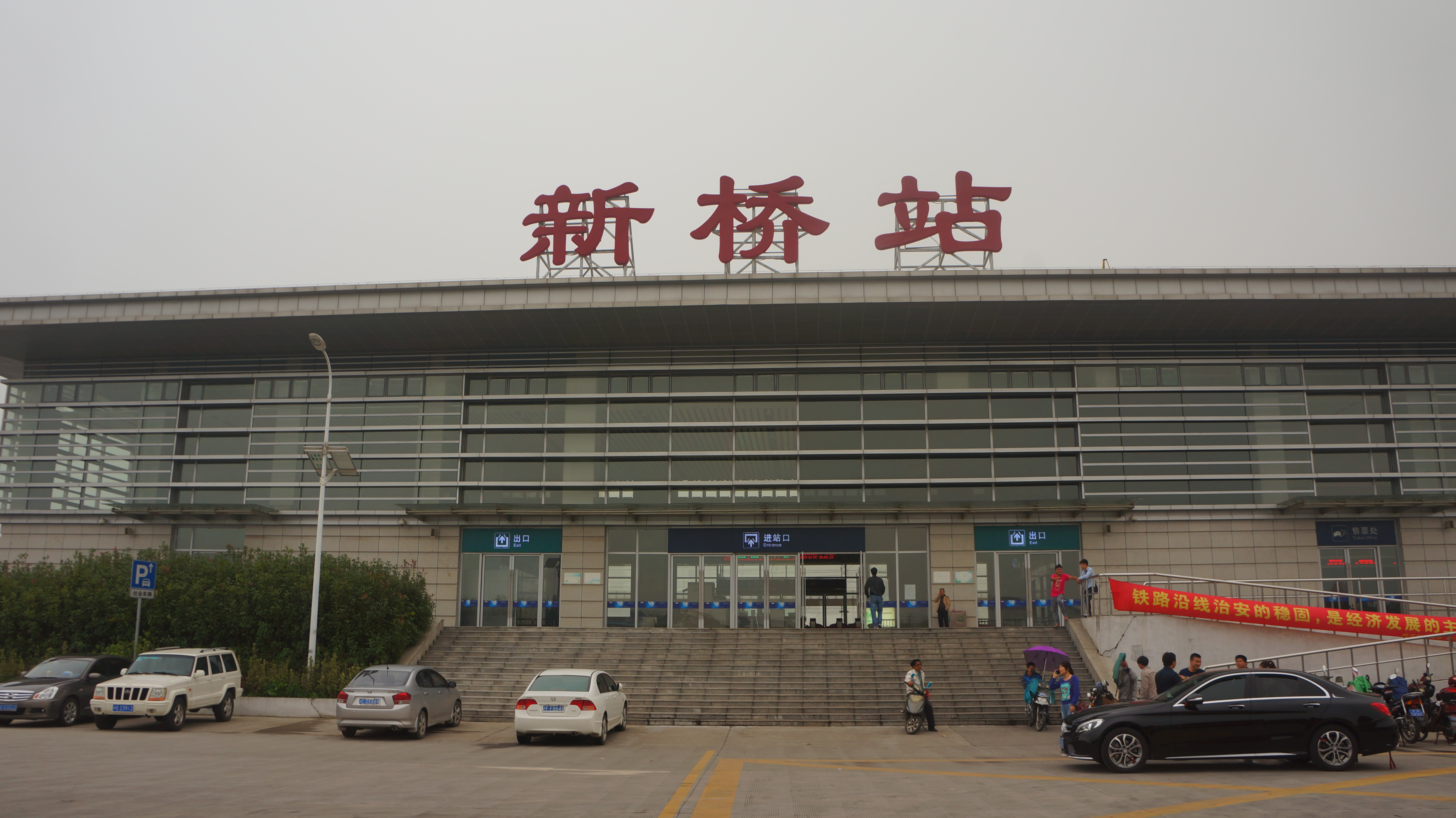 The main building of Xinqiao Railway Station which is used for waiting room of Jinshan Intercity Railway